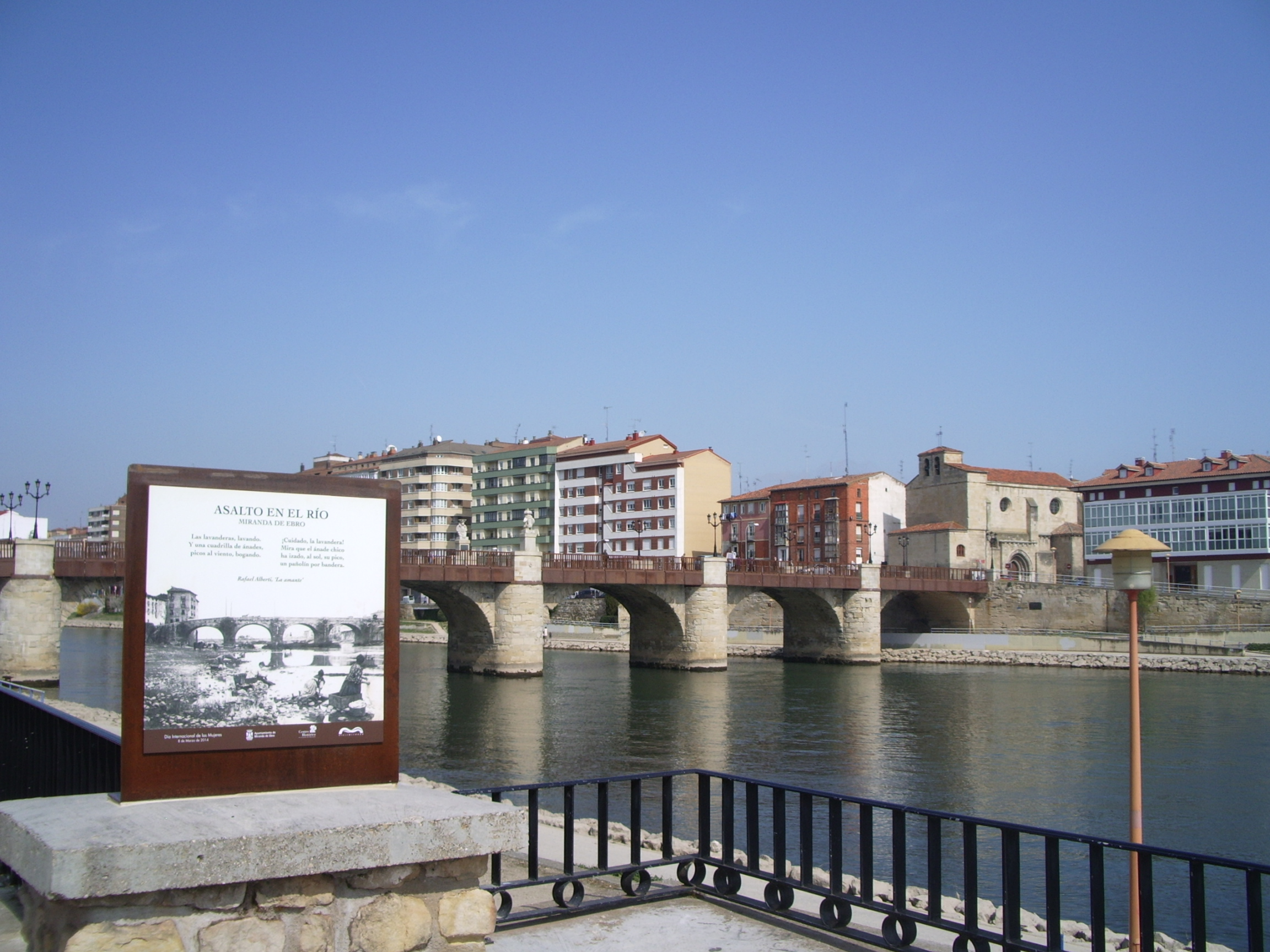 Carlos III bride in Miranda de Ebro.